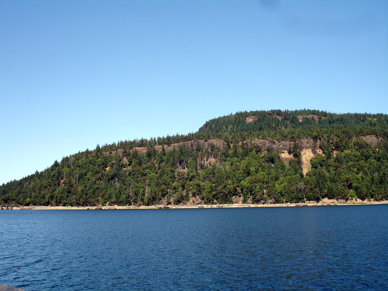 The western part of Hornby Island, British Columbia, Canada, approaching the ferry terminal from Denman Island.